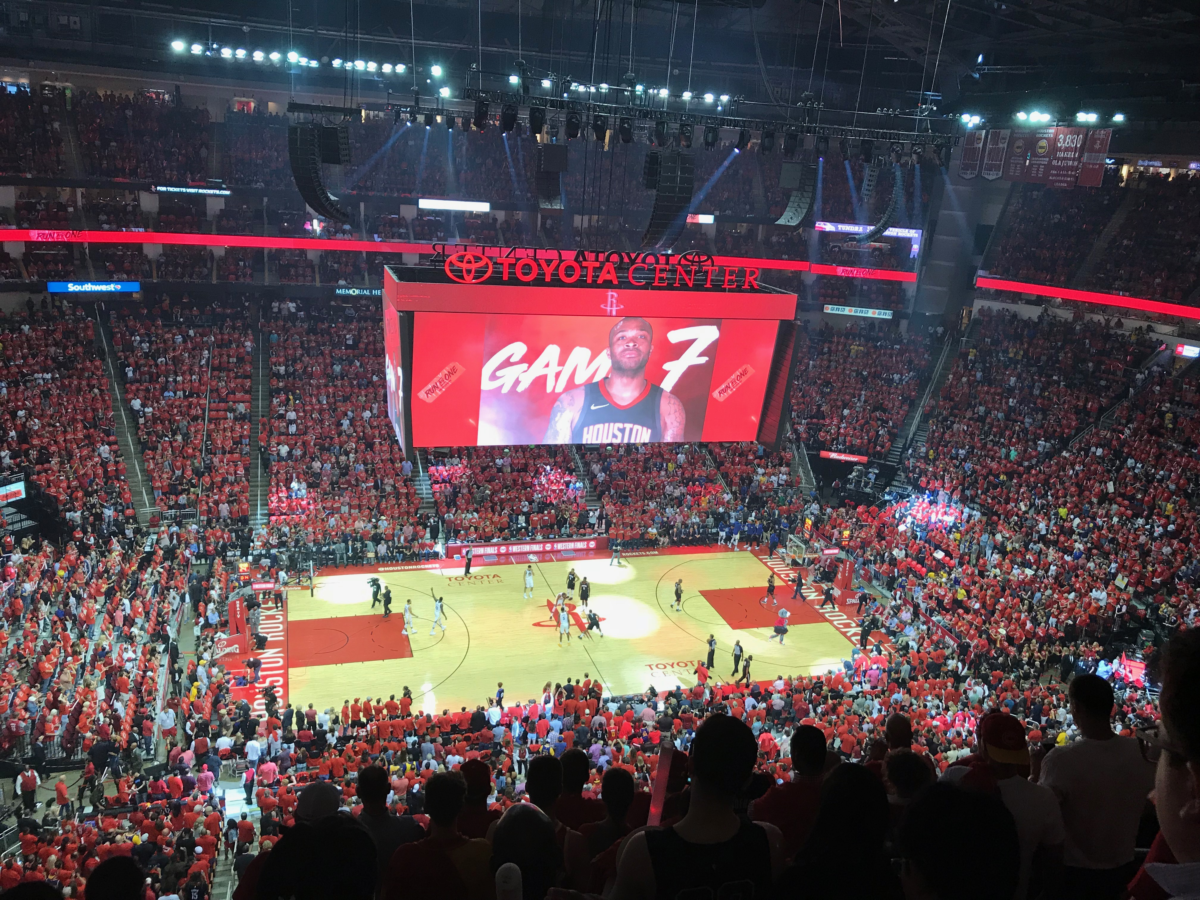 The arena before tip off in Game 7 of the 2018 NBA Western Conference finals.